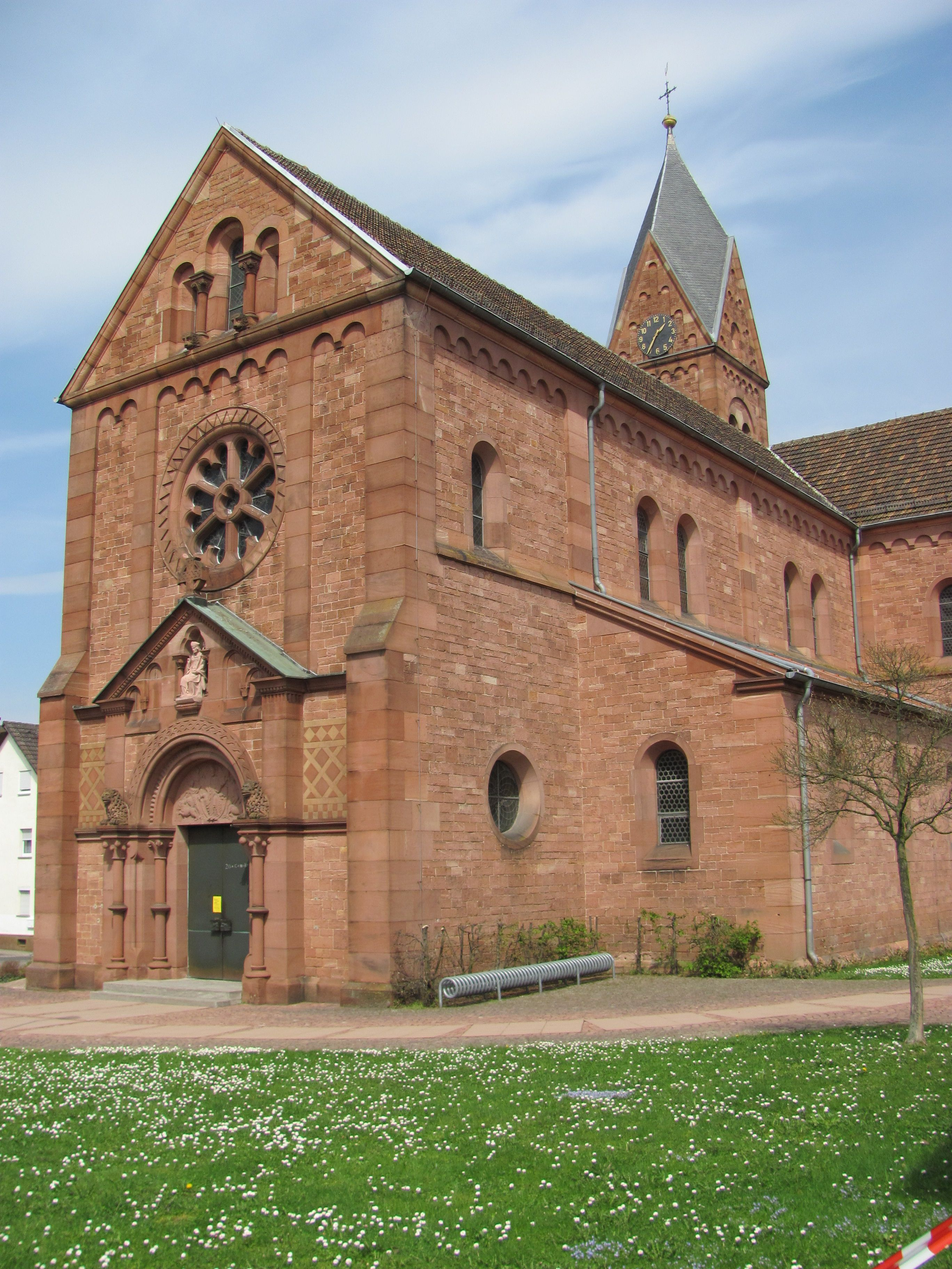 St. Nikolaus, Woerth am Main